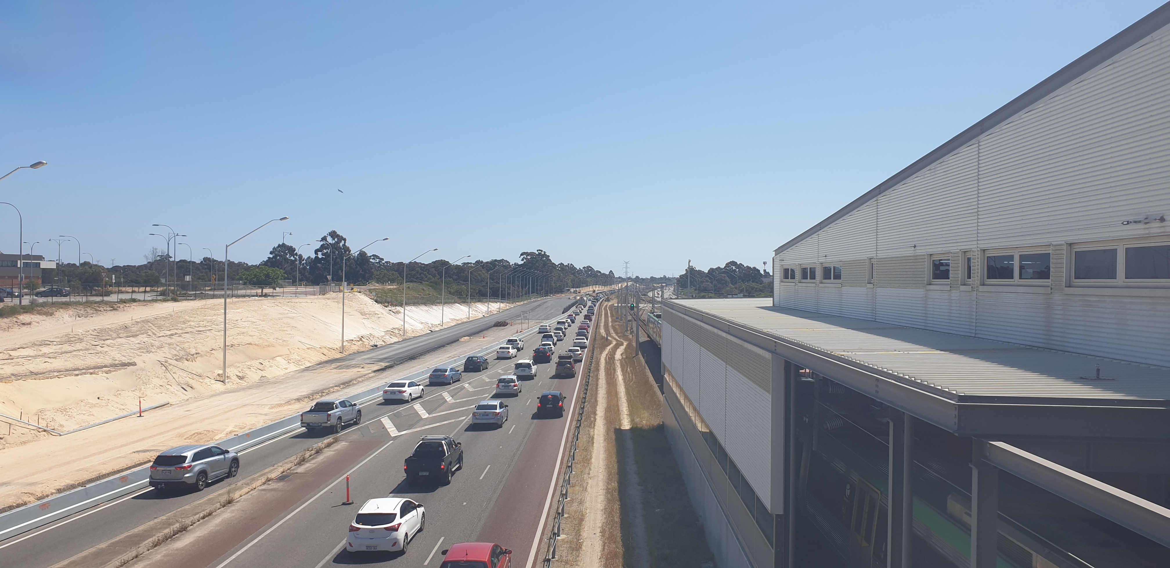 Photo of the widening works on a northbound section of the Kwinana Freeway in September 2019 at Cockburn Central